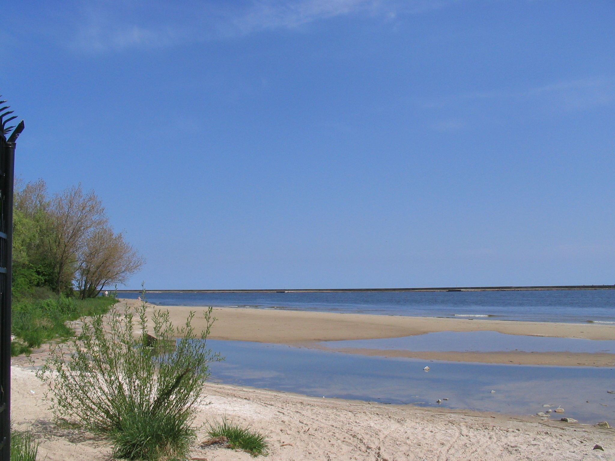 Świnoujście, bank of Świna